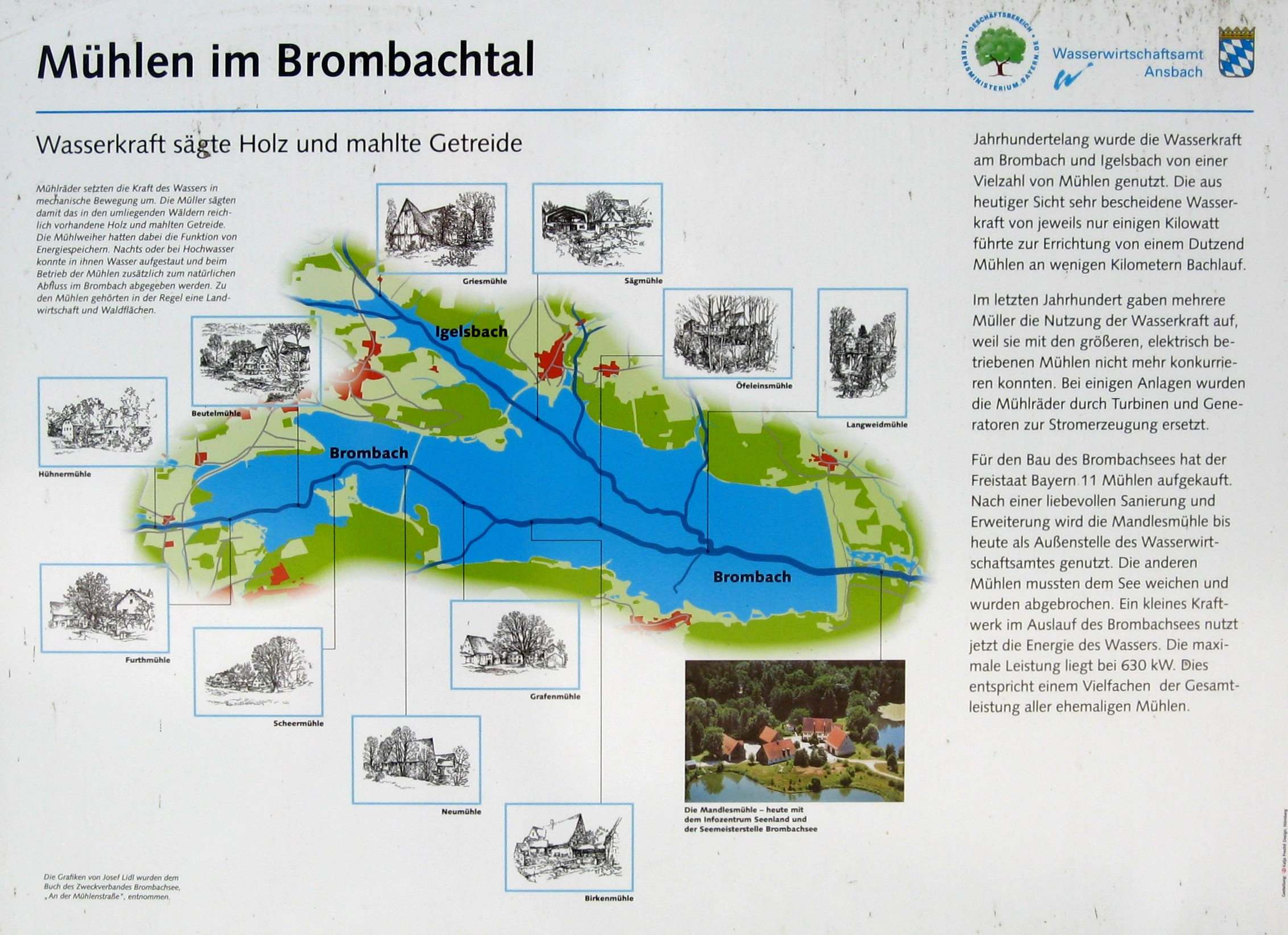 The lost mills of Brombachsee, Bavaria, Germany (Info board at the northern shore)